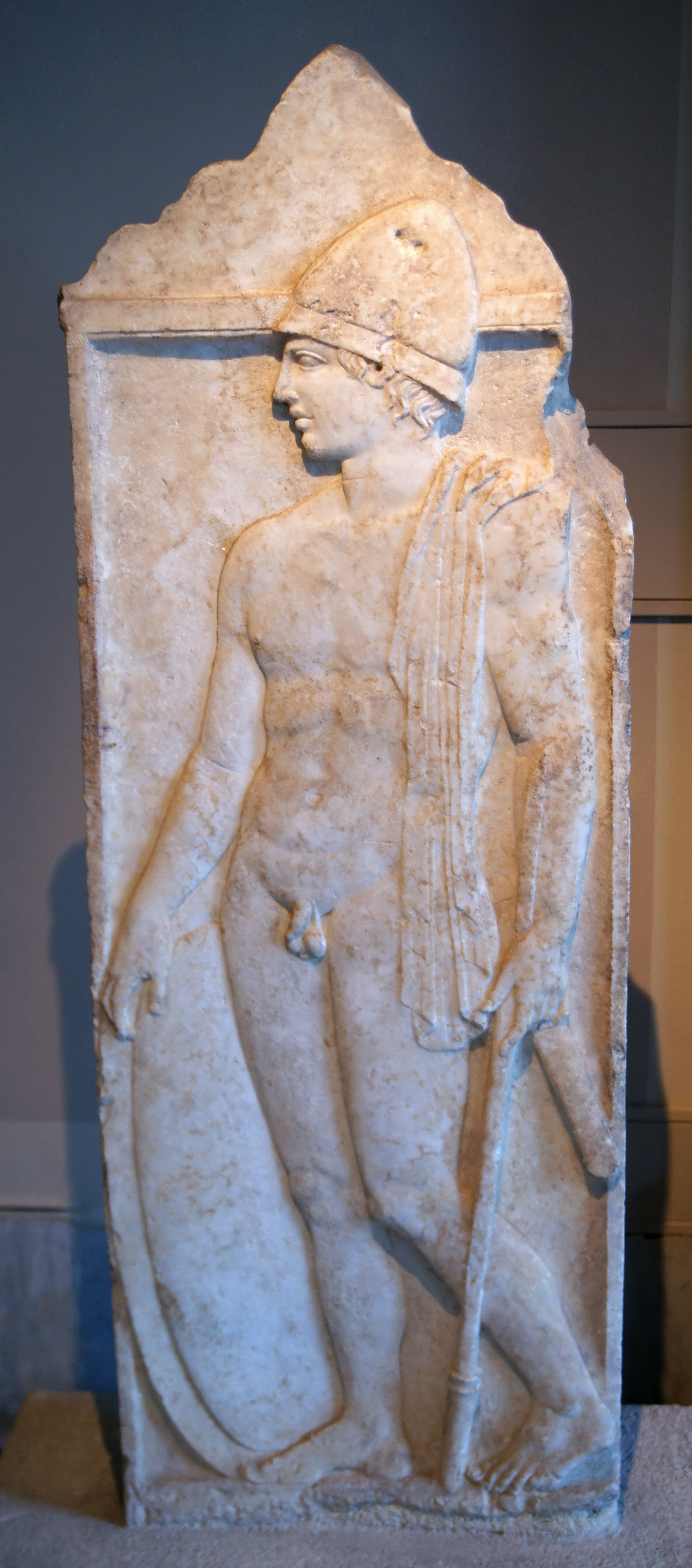 Funerary stele of a soldier. Marble, Pella (near Salonika, Attika). Classical style, 430-420 BC. Istanbul Archaeological Museums inv. no. 85 T (Mendel 39).